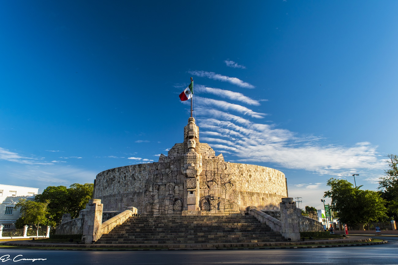 Monumento a la patria en Mérida, Yucatán, México.